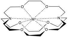 cryptand with a generic metal guest